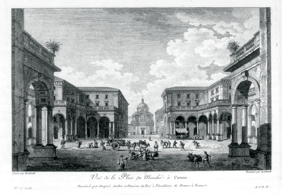 Place du Marché, Catane